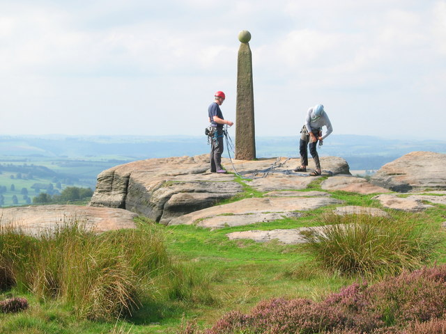 Nelson's Monument, Birchen Edge. The monument consists of a gritstone column with a ball on top. It was erected in 1810 by a local businessman in honour of Lord Nelson. Three nearby boulders have been carved with the names of three of Nelson's ships